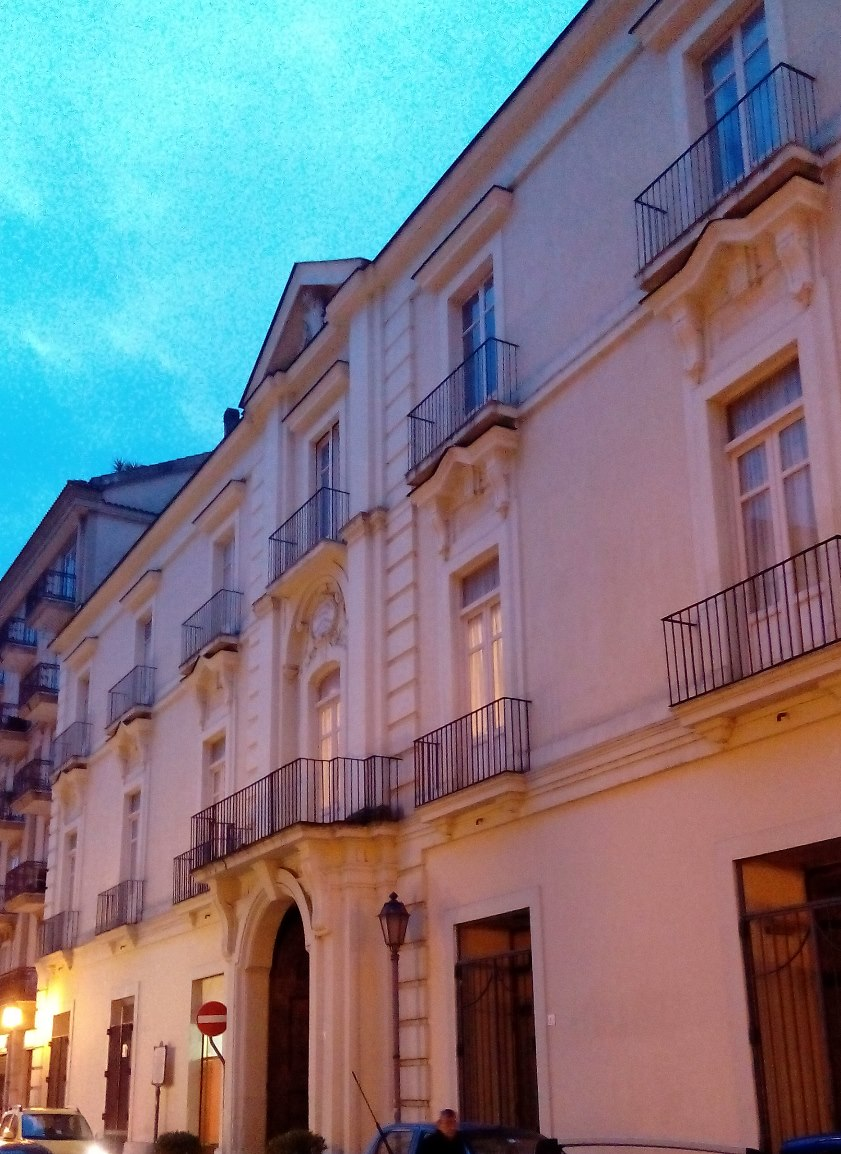 Old building in Caserta.